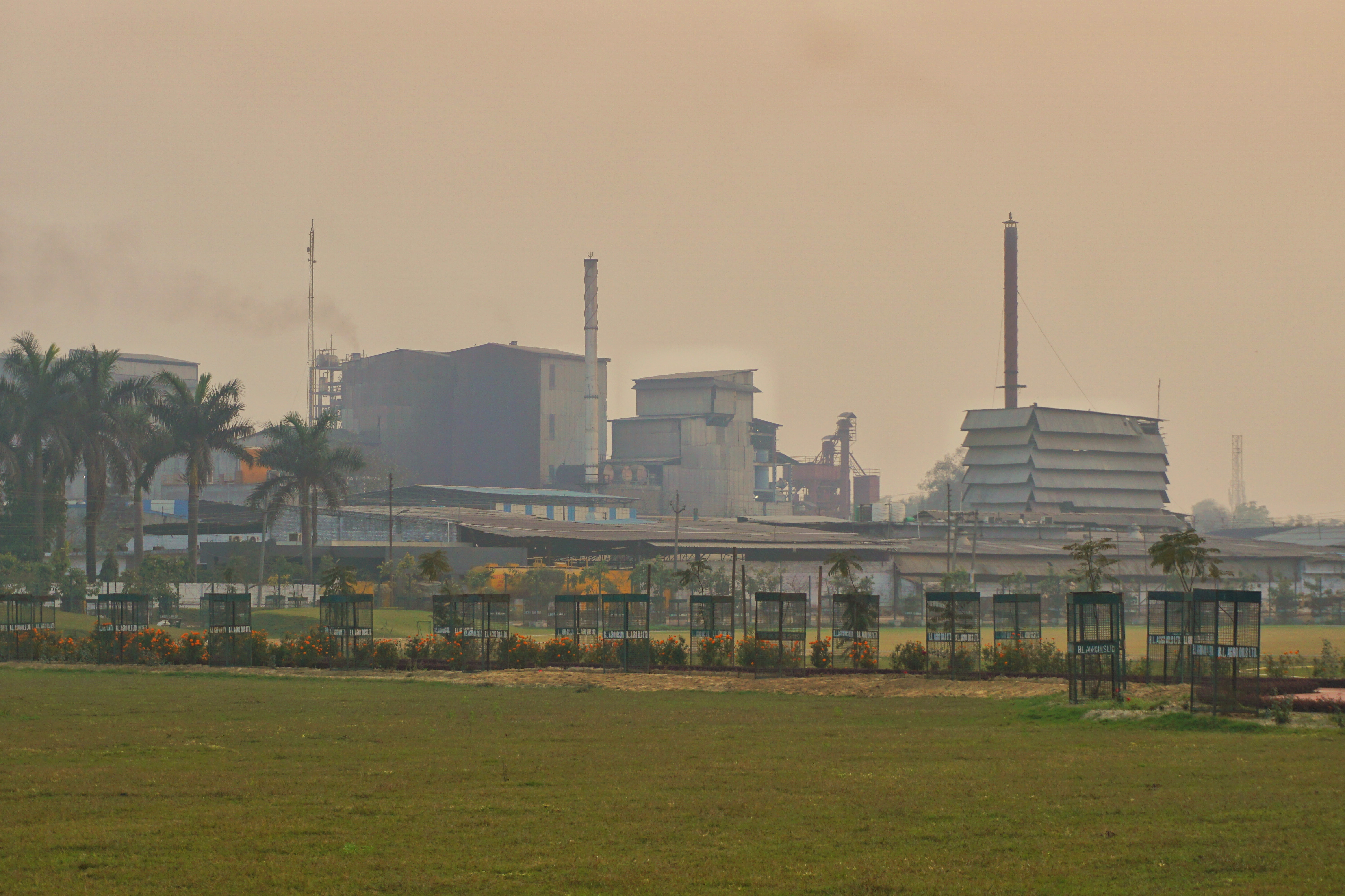 Factories in Parsakhera Bareilly